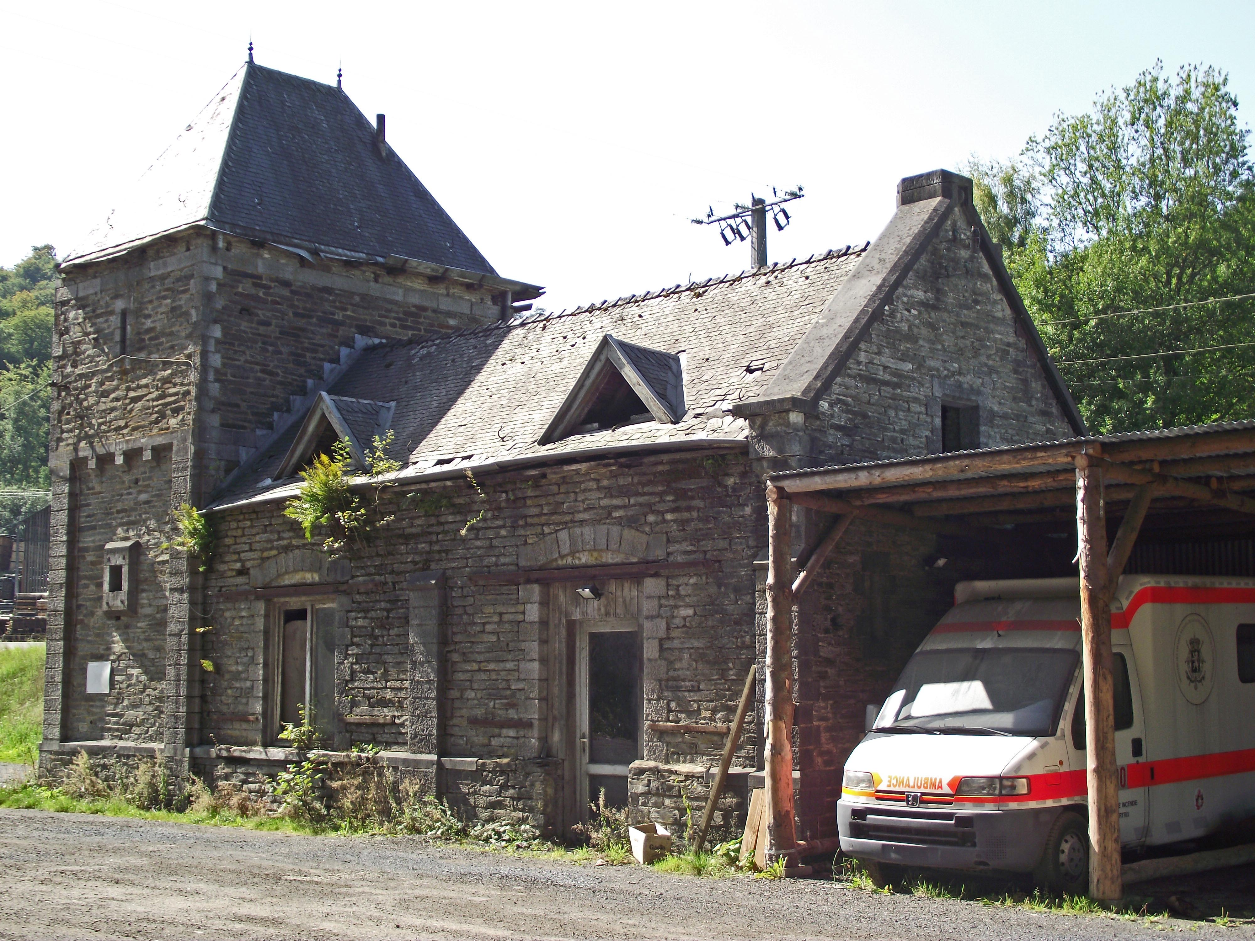 A ex-SNCV station building in Alle, just outside village, now used as a fire-station and for the garage of an ambulance. The building is in a bad state.